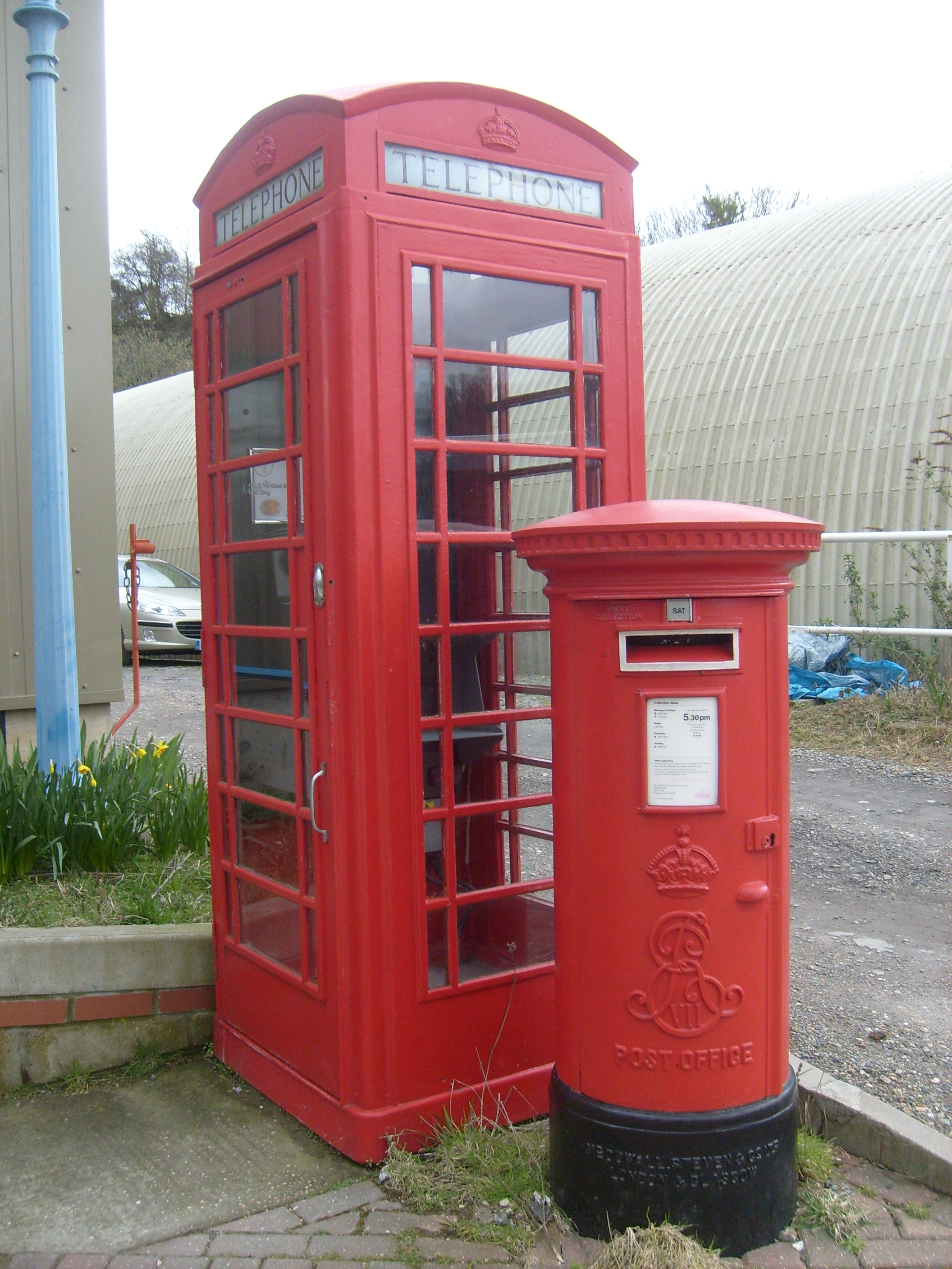 A K6 Telephone Box and a King Edward VII Pillar Box at the Amberley Working Museum.